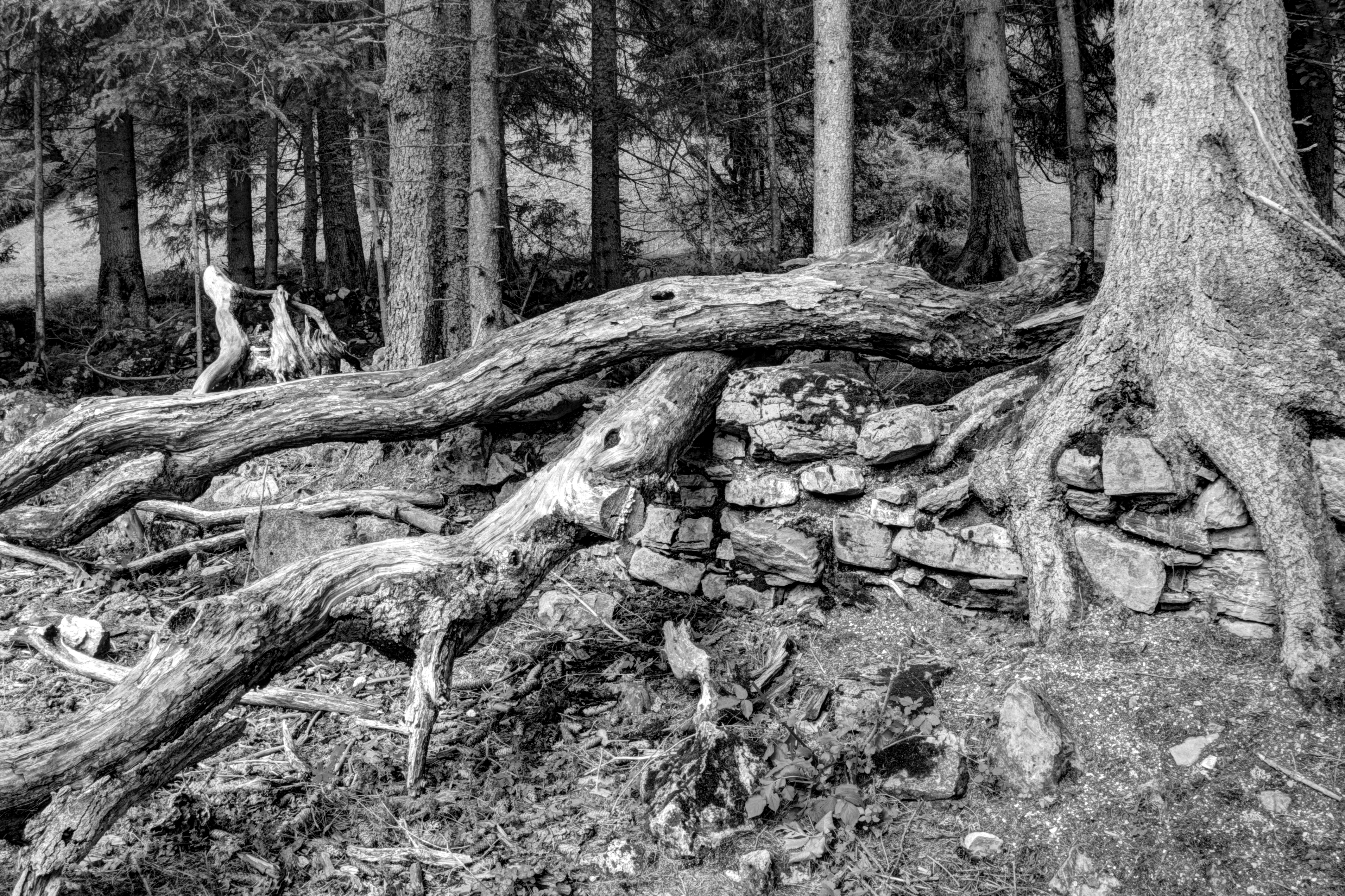 Foundations (ruins) of the Administration building, built in 1756 by Matthias Filzmayer in former village glassblower Tscherniheim, a place of Forest glass production from 1621 to 1879 in the municipality Hermagor-Pressegger See in Carinthia / Austria / EU. Foundations of a large building near the creek. The walls are covered with spruce trees. The dead wood is made of hardwood logs.